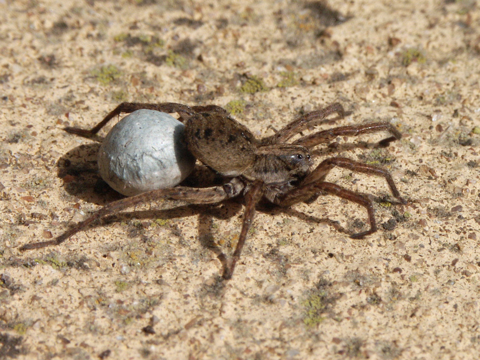 Wolf Spider carrying egg sac across our back path in Chelsea, Victoria, Australia